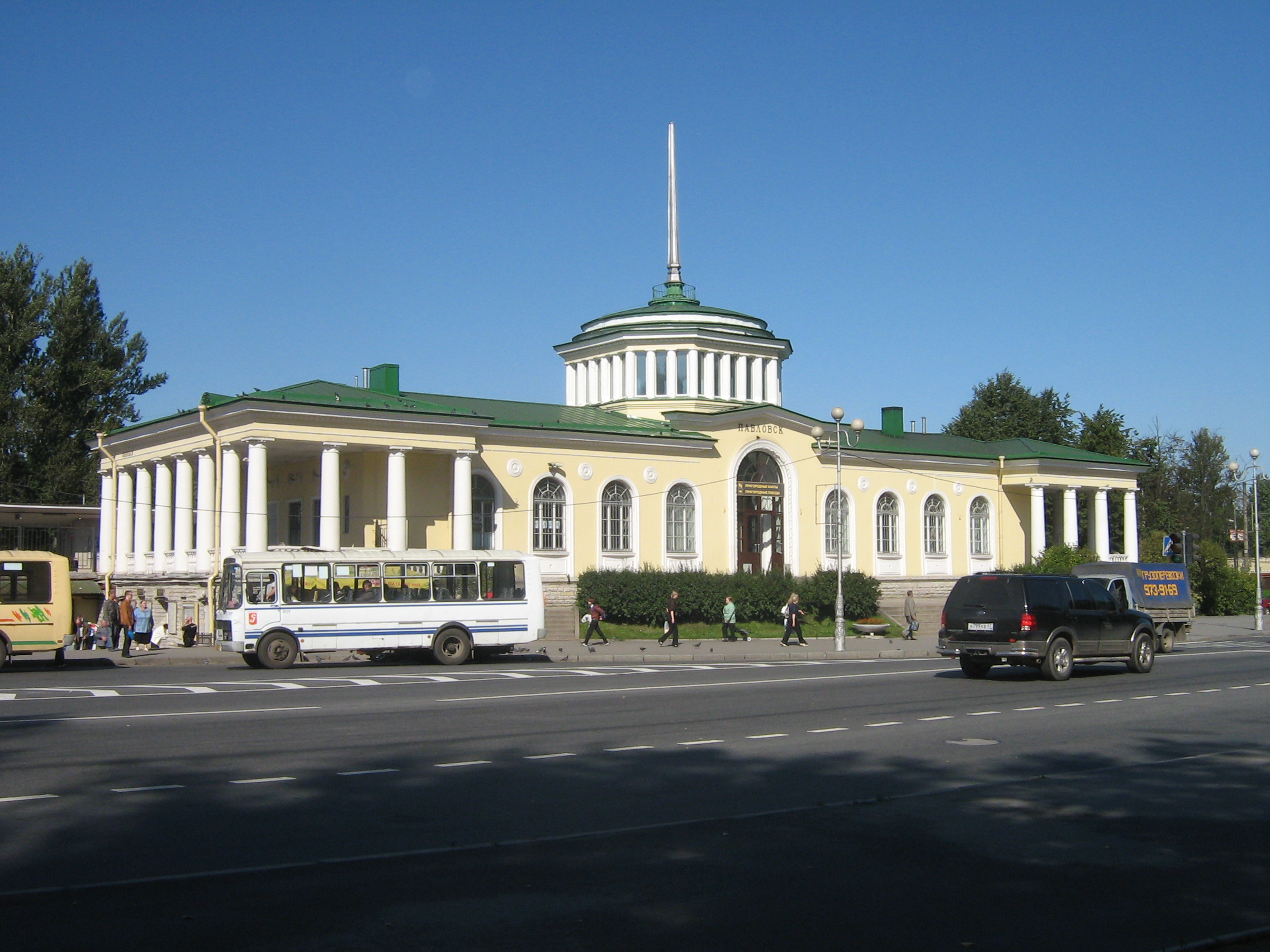 Pavlovsk (Russia)